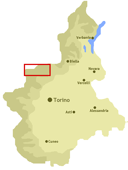 Position of the valley Valle di Locana